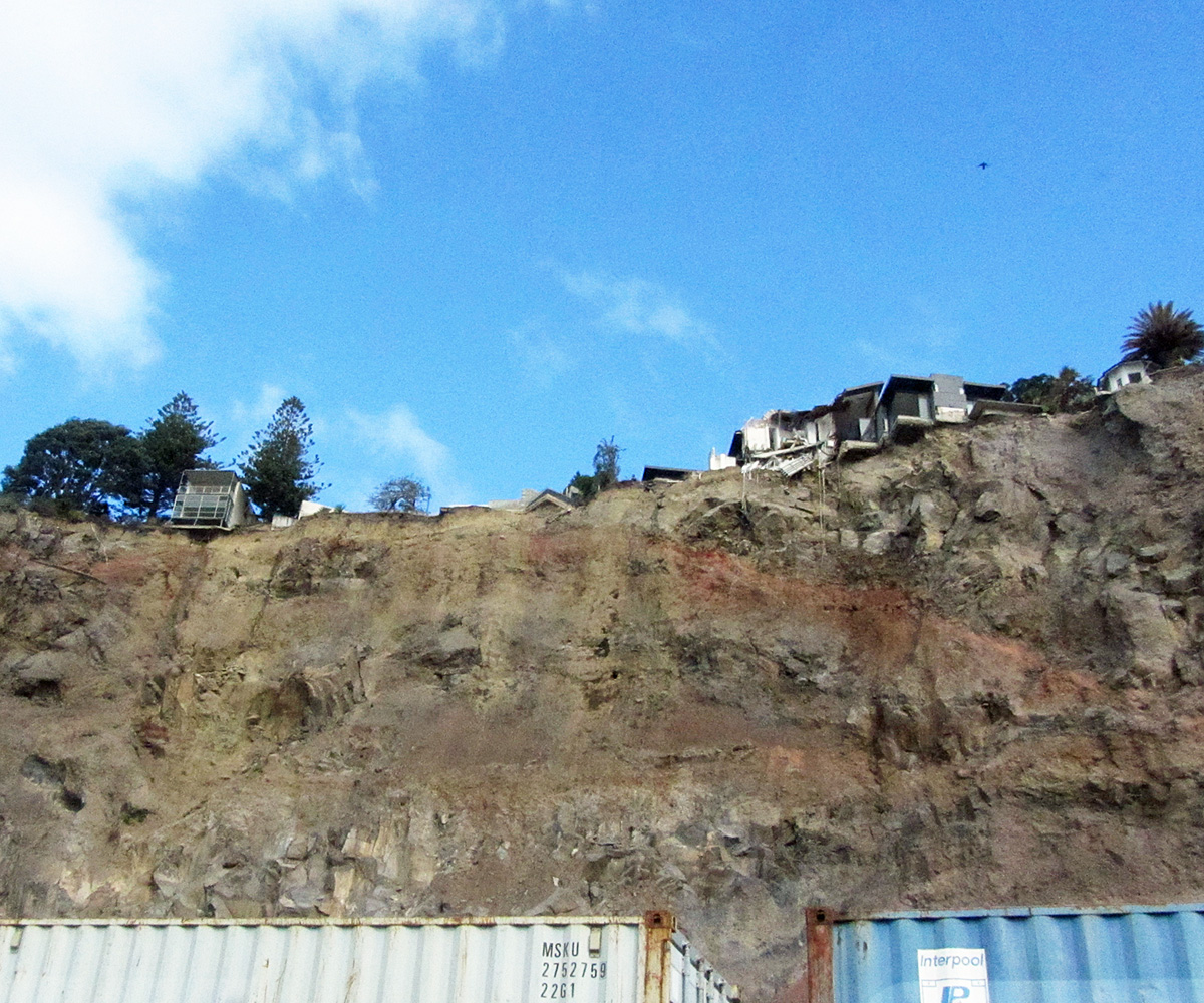 Shipping containers to stop boulders from rolling across the road